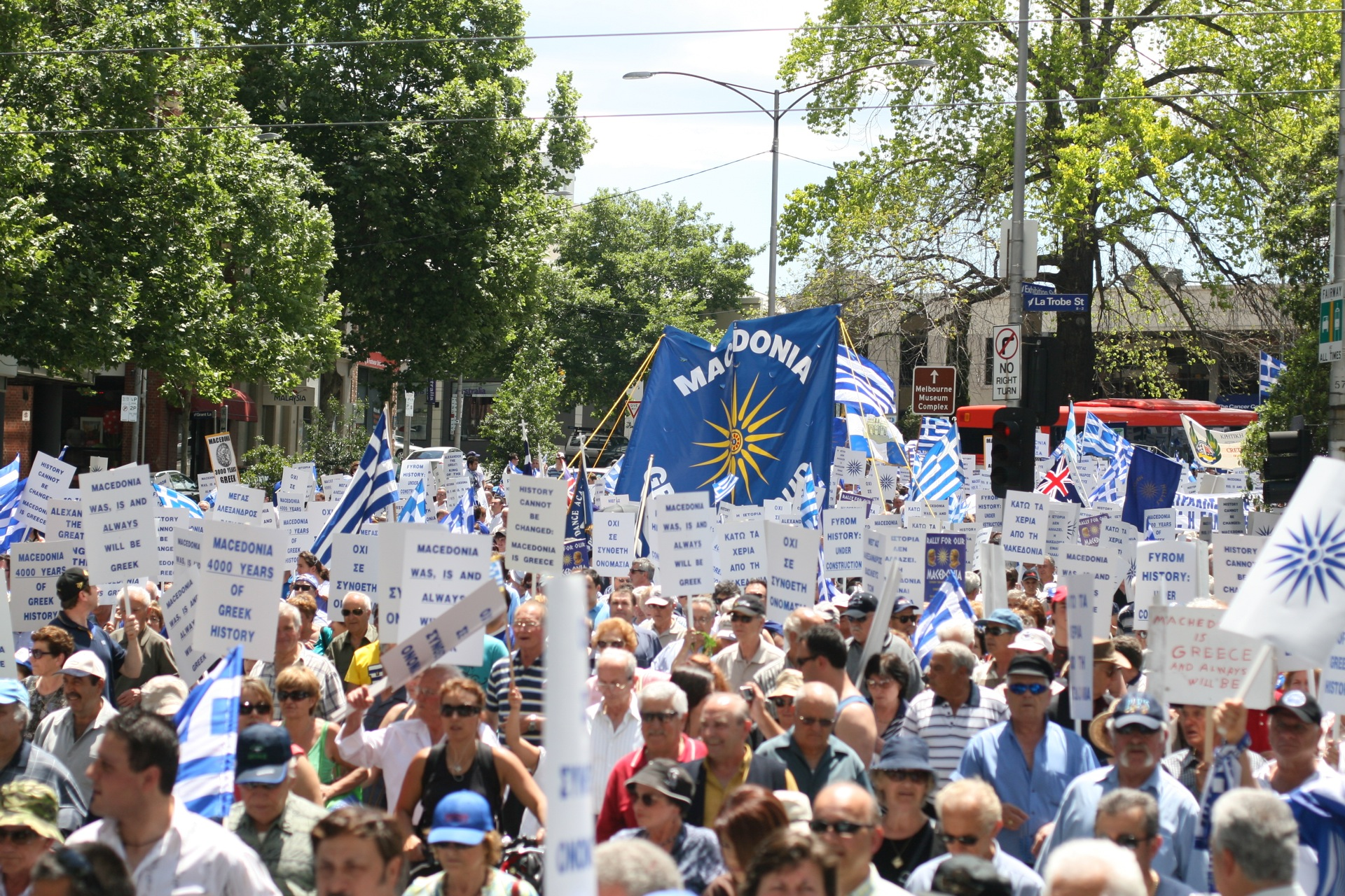 Macedonia is Greek Rally Sunday, November 18th 2007